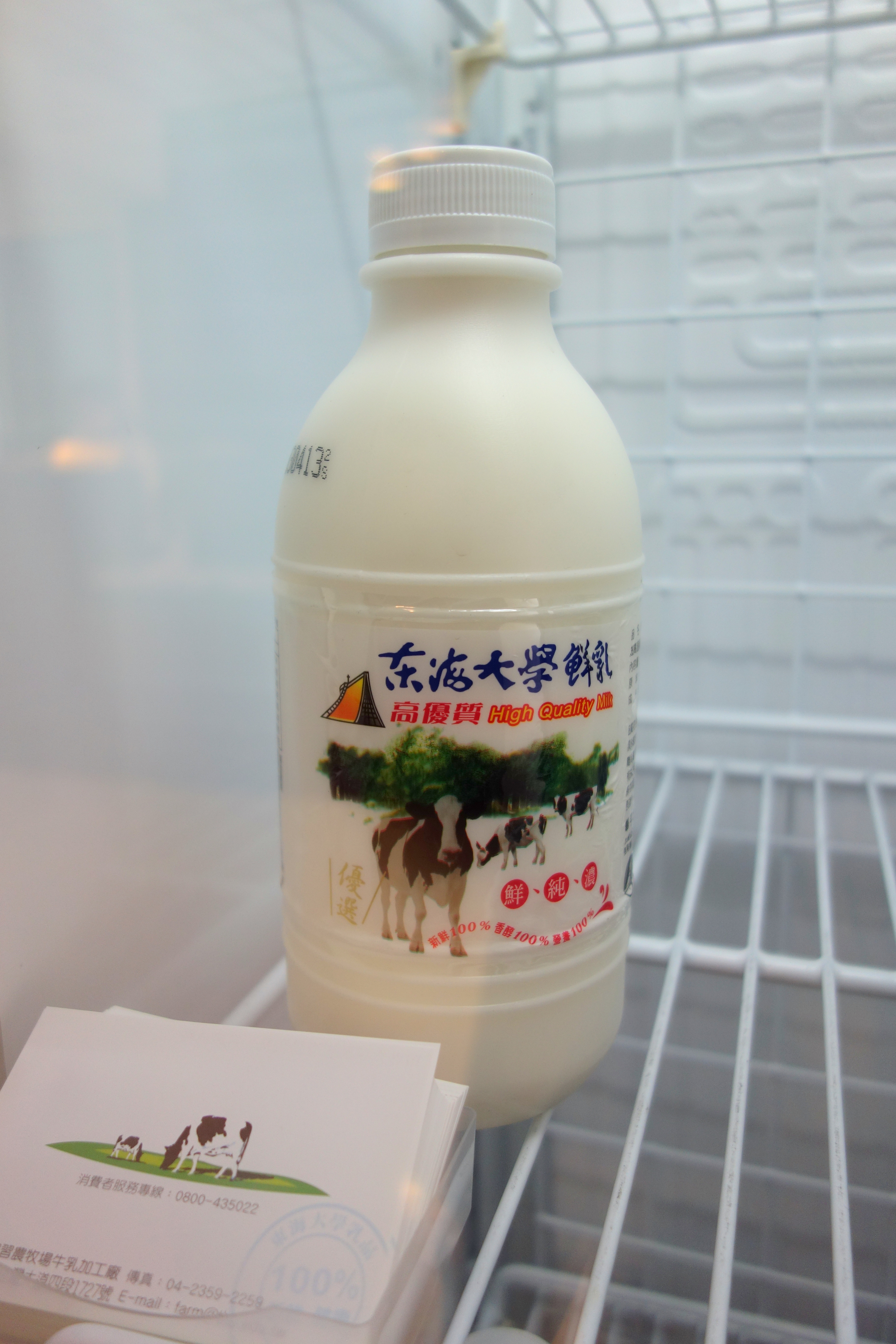 Tunghai Milk - Tunghai University - Taichung, Taiwan.